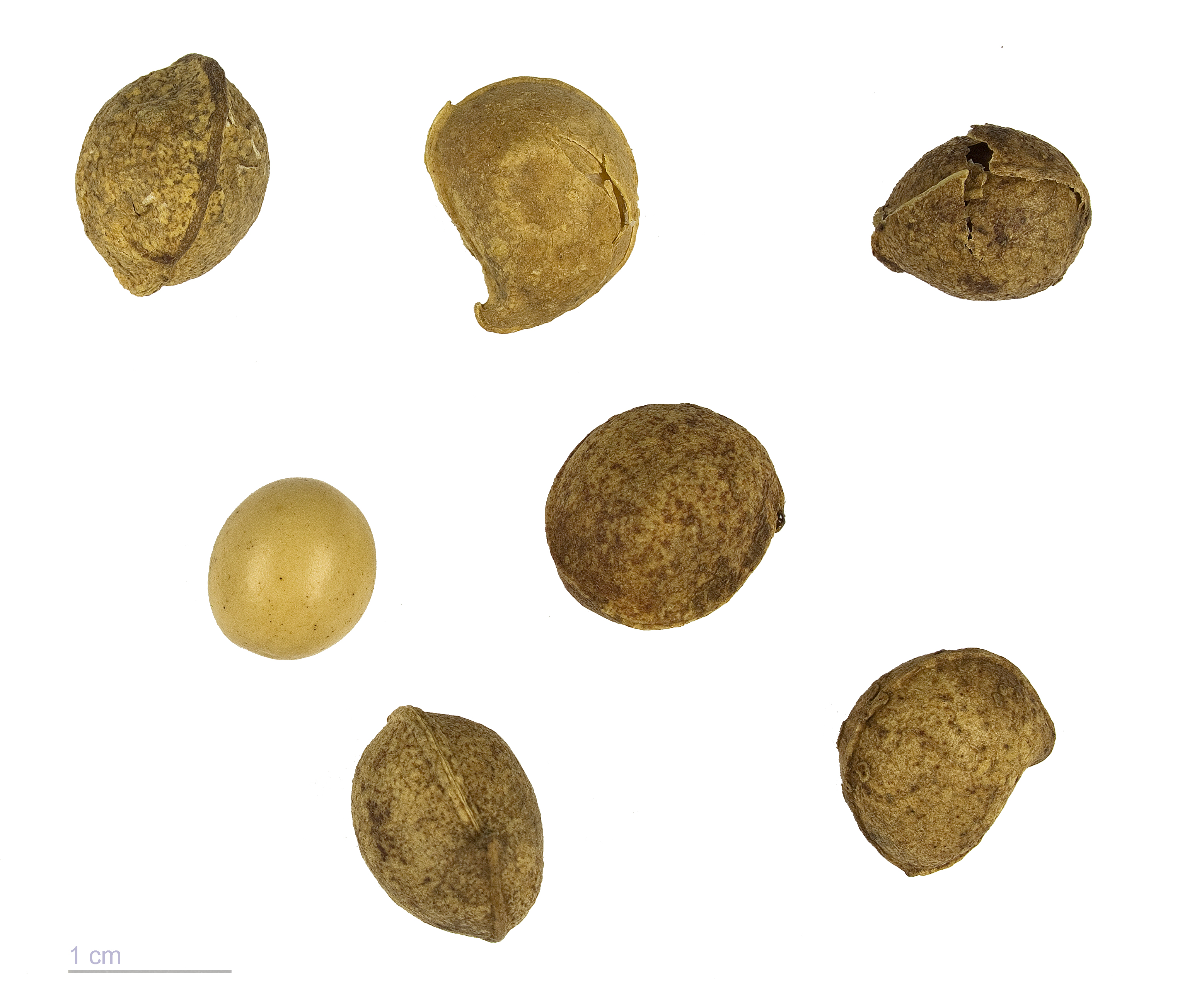 Bambara groundnut , fruits and seeds